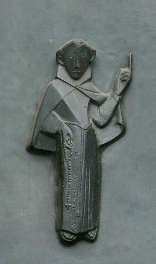 Southern portal at the Cologne Cathedral, Germany. Relief of Duns Scotus, created by Ewald Mataré in 1948. The left door of the portal shows 7 reliefs as an allegory to the 7 Gifts of the Holy Spirit: wisdom, understanding, counsel, fortitude, knowledge, piety, and fear of the Lord. Scotus here symbolizes the gift of understanding.